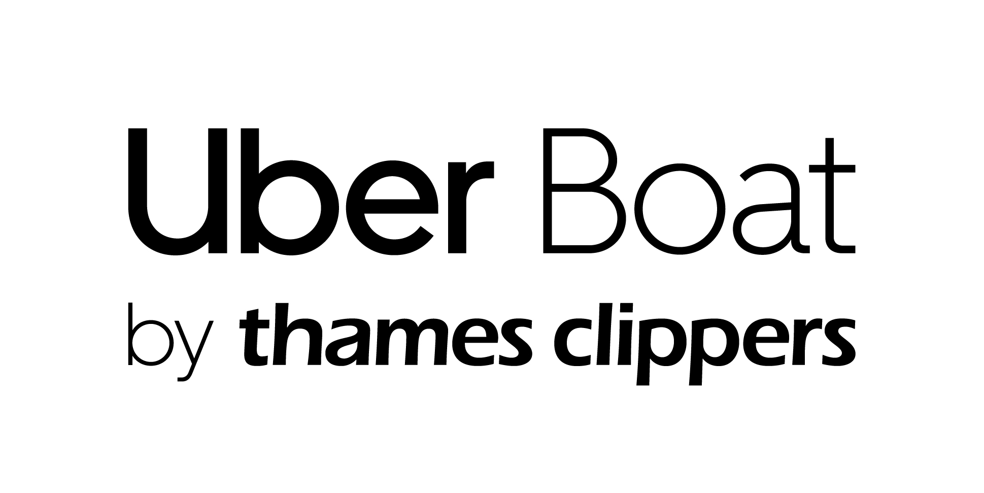 The logo of Uber Boat by Thames Clippers, as of 3rd August 2020.